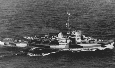 USS Mason (DE-529) off the U.S. Atlantic coast east of Boston, Massachusetts (position 42-23N, 69-07W), 28 August 1944. Photographed from a blimp of squadron ZP-11. Starboard broadside aerial view.